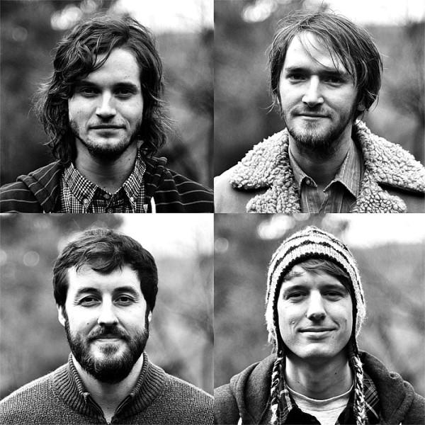 The band "The Deadly Syndrome" in 2010.